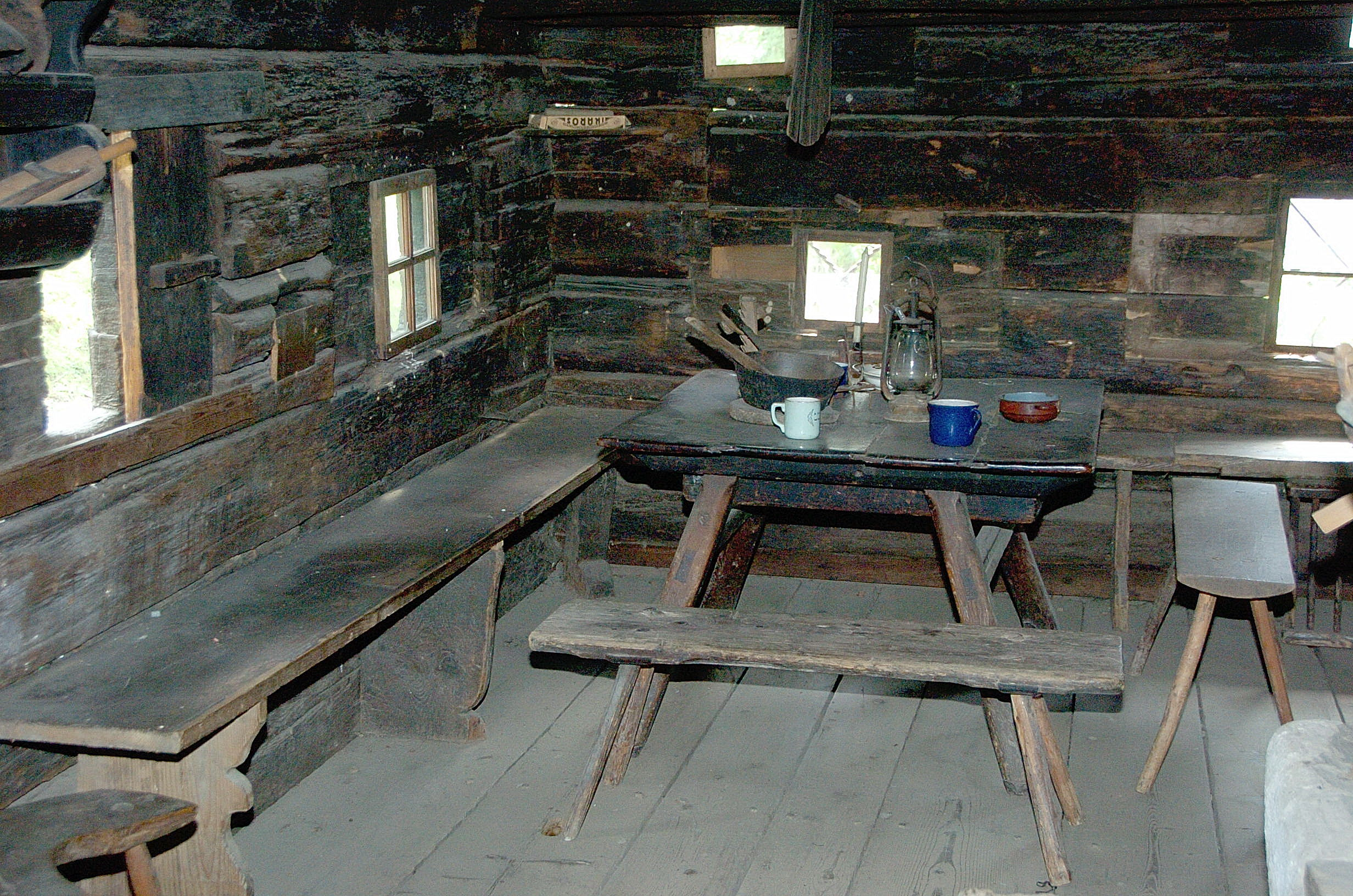 Dining corner in the Bodner-farmhouse at Saint Oswald from the 17th century, exposed at the Freilicht-(open air-) museum in Maria Saal, district Klagenfurt-Land, Carinthia, Austria